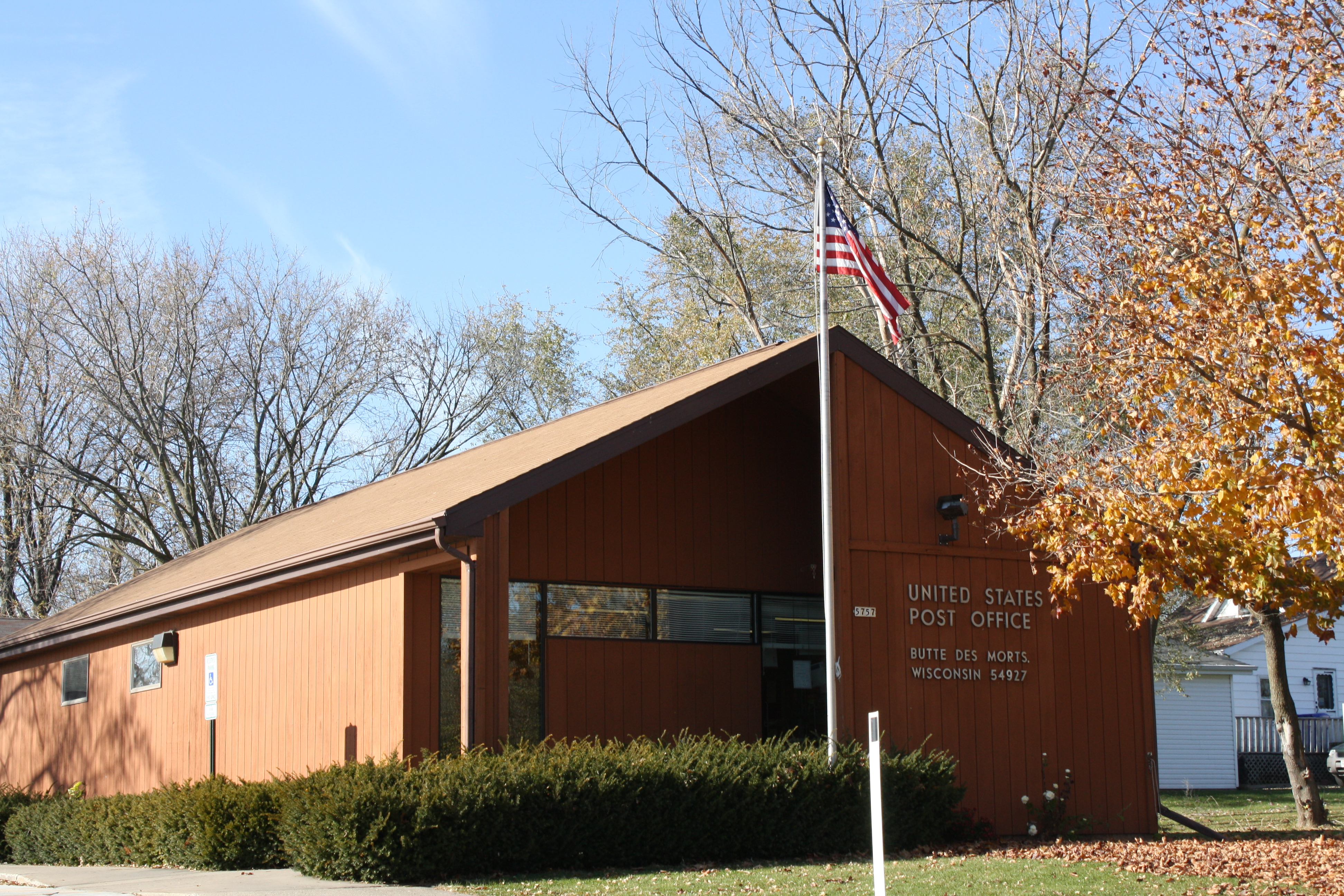 The post office in Butte des Mortes, Wisconsin.